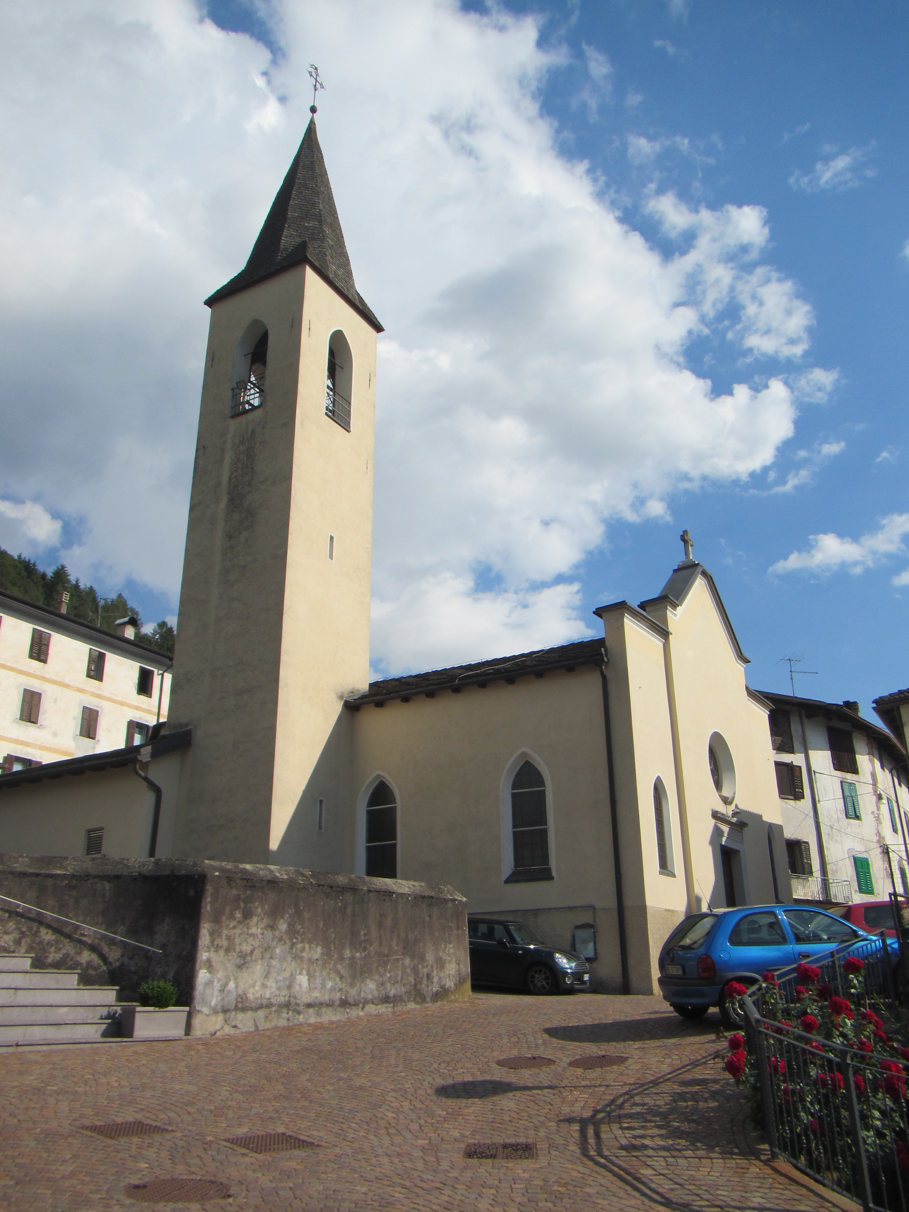 Sevignano, Segonzano - church, side view